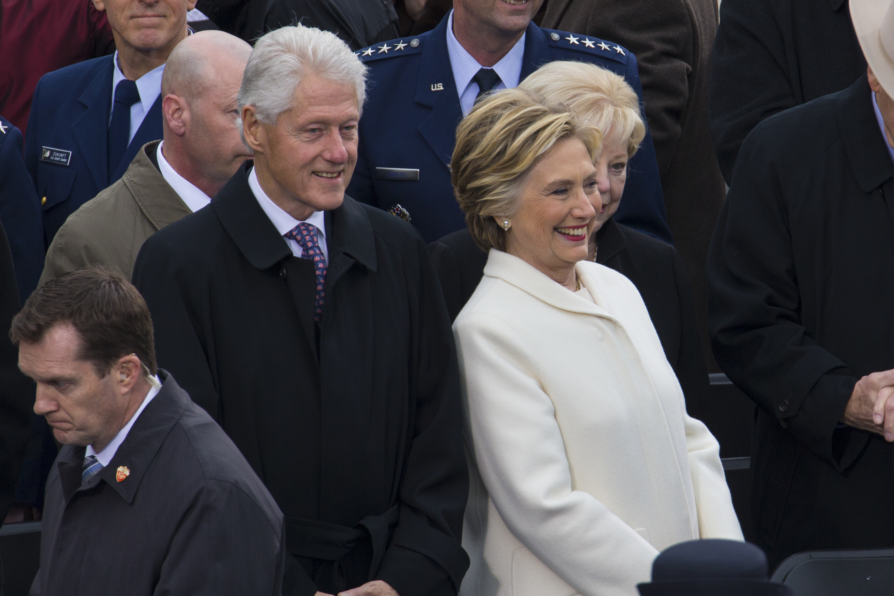 The 42nd President of the United States William Jefferson Clinton and his wife the 67th United States Secretary of State Hillary Rodham Clinton attend the 58th Presidential Inauguration at the U.S. Capitol Building, Washington, D.C., Jan. 20, 2017. More than 5,000 military members from across all branches of the armed forces of the United States, including Reserve and National Guard components, provided ceremonial support and Defense Support of Civil Authorities during the inaugural period. (DoD photo by U.S. Marine Corps Lance Cpl. Cristian L. Ricardo)